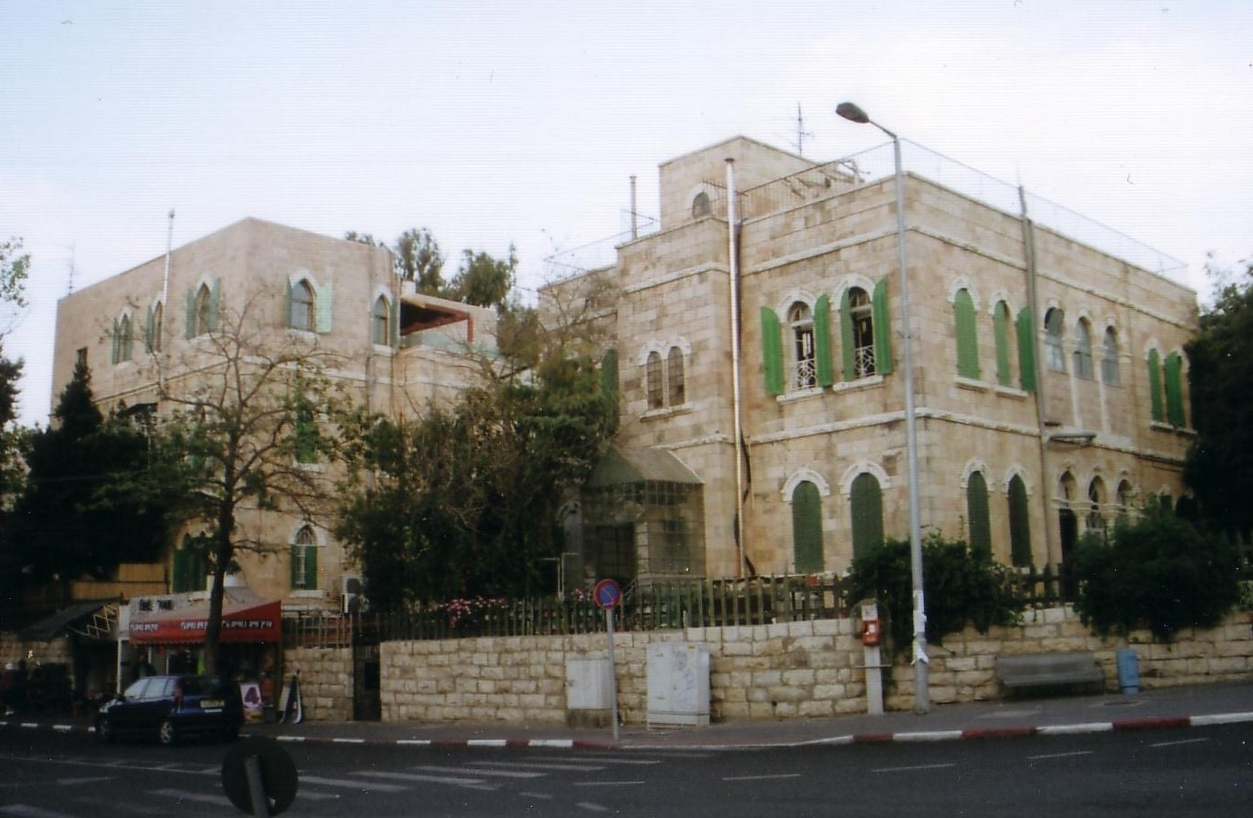 Houses in the corner of Bethlehem Rd. and Yehuda St., Bak'a Jerusalem